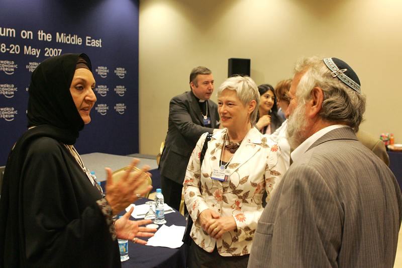 Meeting of the Israeli-Palestinian Business Council at the World Economic Forum on the Middle East held at the Dead Sea in Jordan 18-20 May 2007. Copyright World Economic Forum (